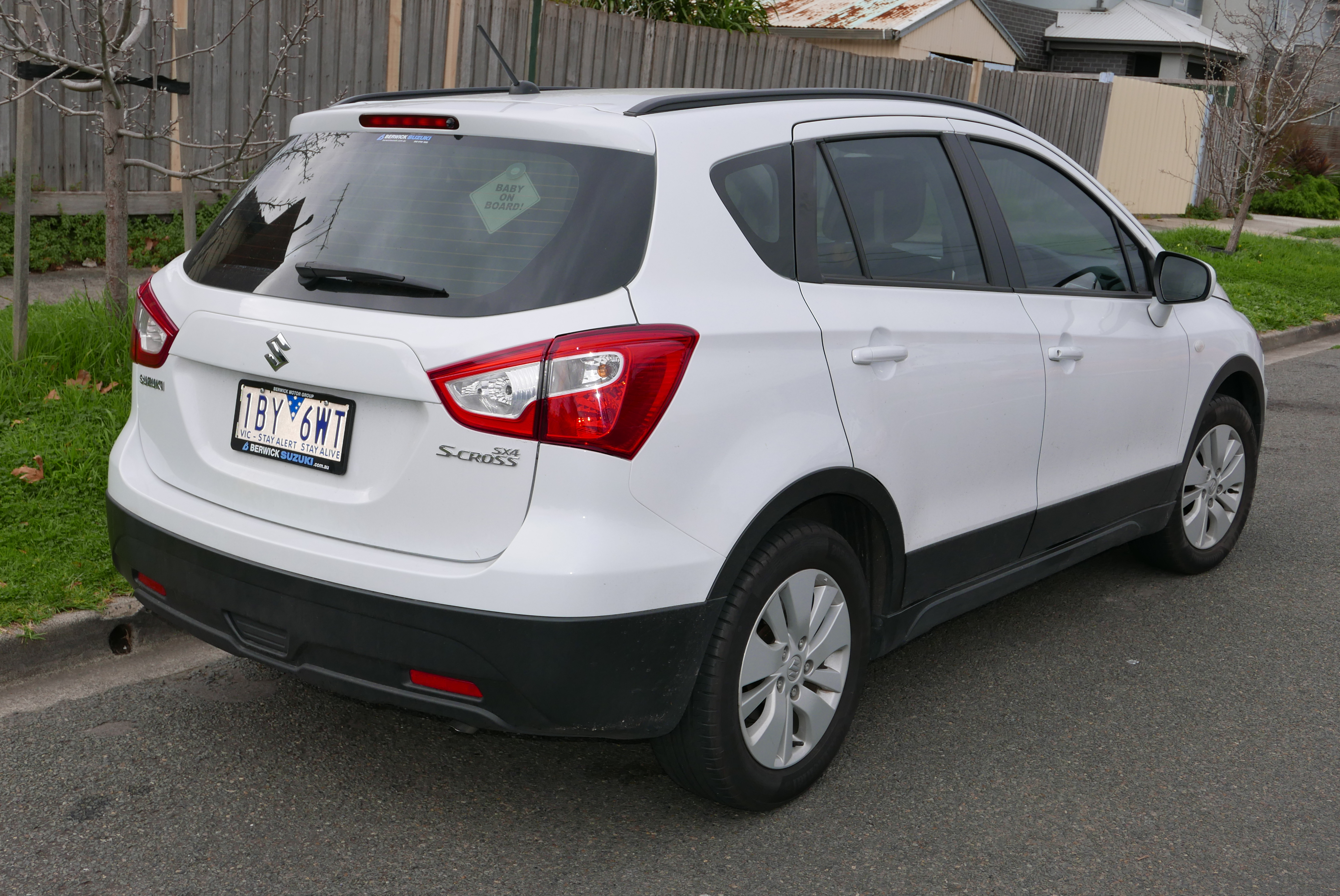 2014 Suzuki SX4 S-Cross (JY) GL wagon. Photographed in Fairfield, Victoria, Australia. Vehicle registration enquiry resultsJurisdictionVictoriaRegistration1BY6WTChassis codeTSMJYA22S00122345Engine codeM16A1780552Compliance date2014-01Year of manufacture2014